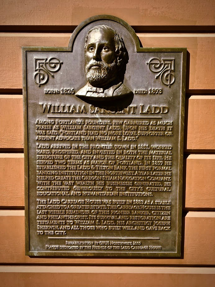 Plaque to William S. Ladd on Ladd Carriage House, Portland, Oregon. Photo by Gretchen Forster Bertram with permission to use.